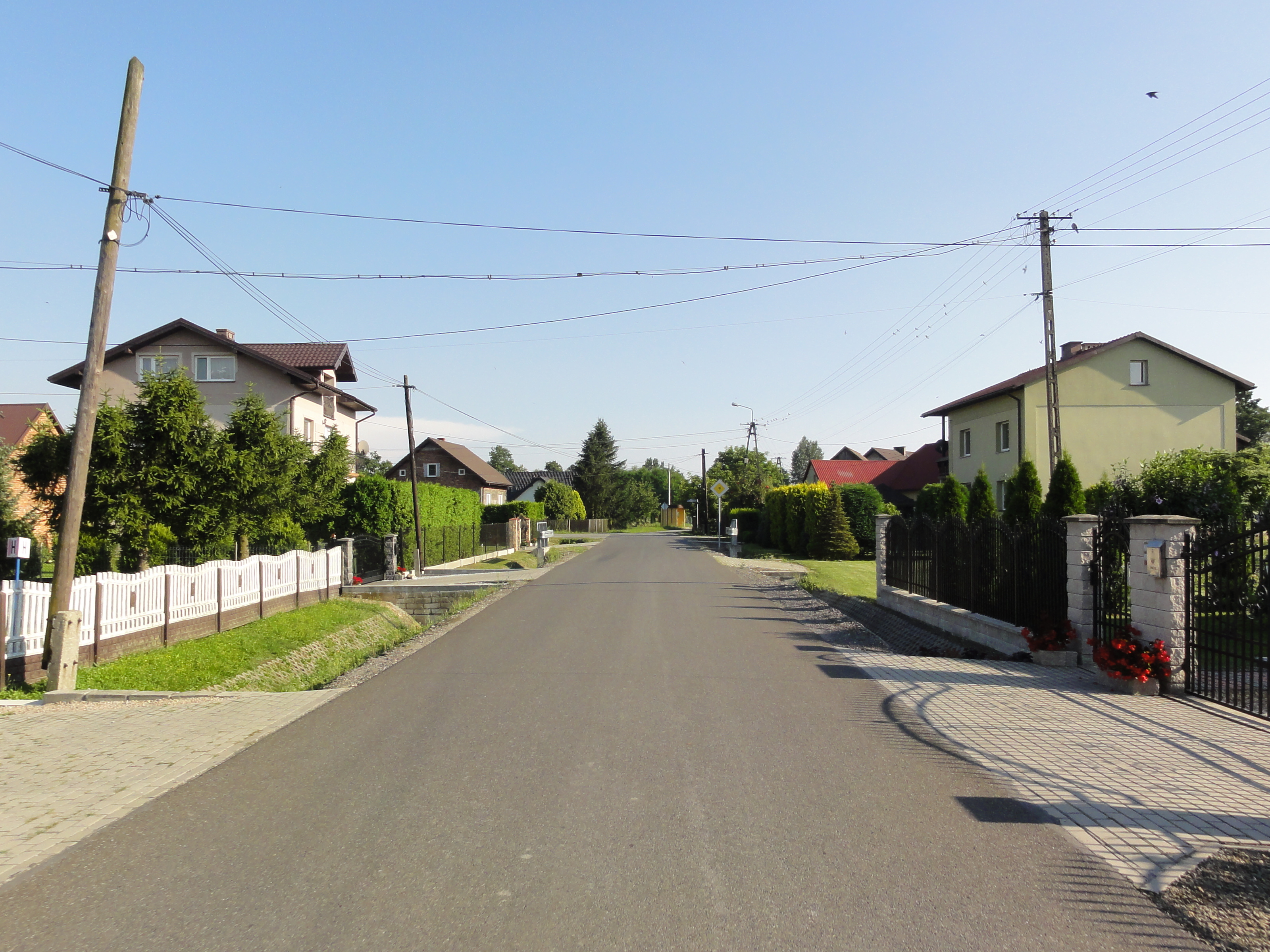 Pławy